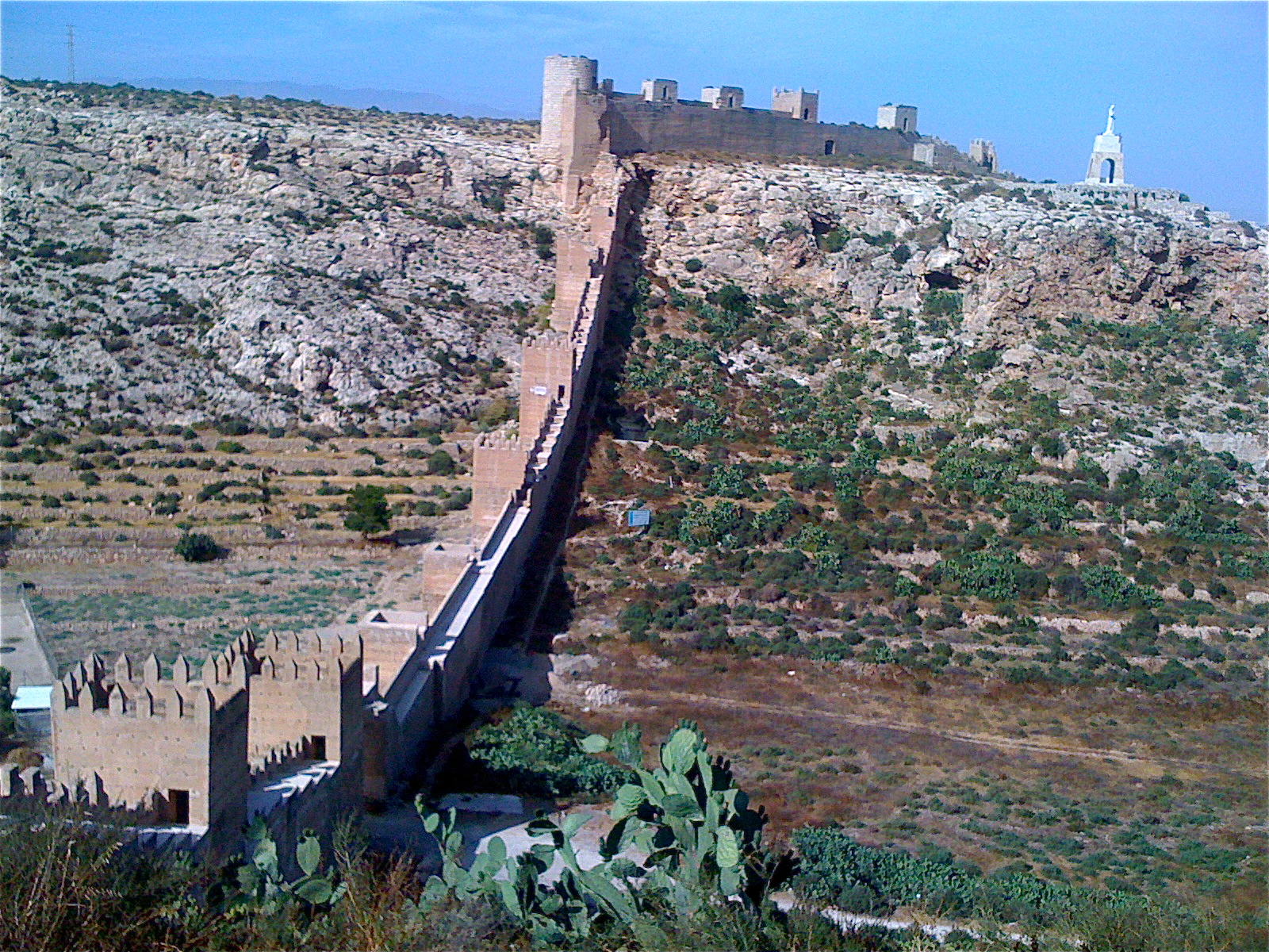 Alcazaba of Almeria